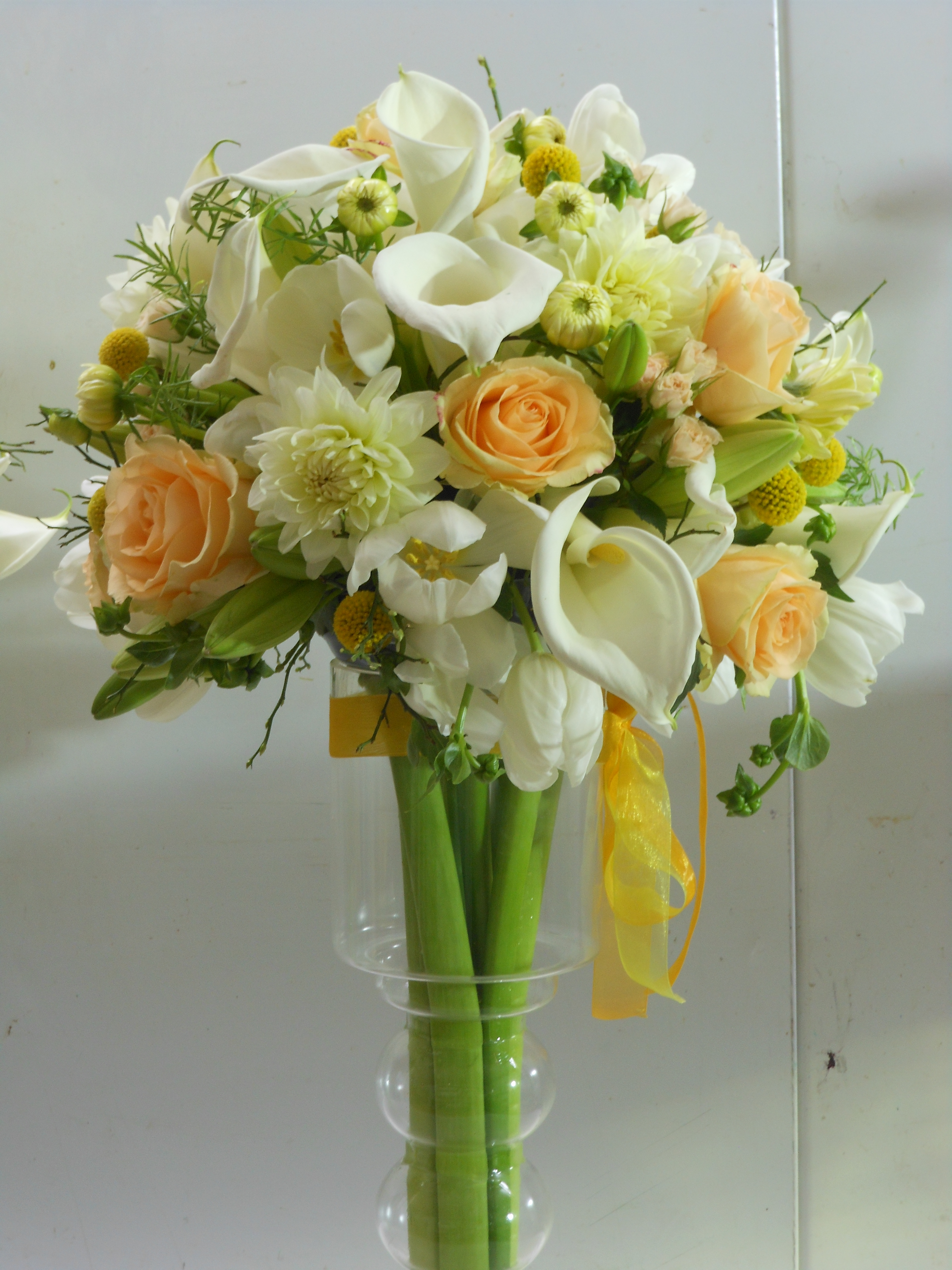 Dahlia roses and cala lilies